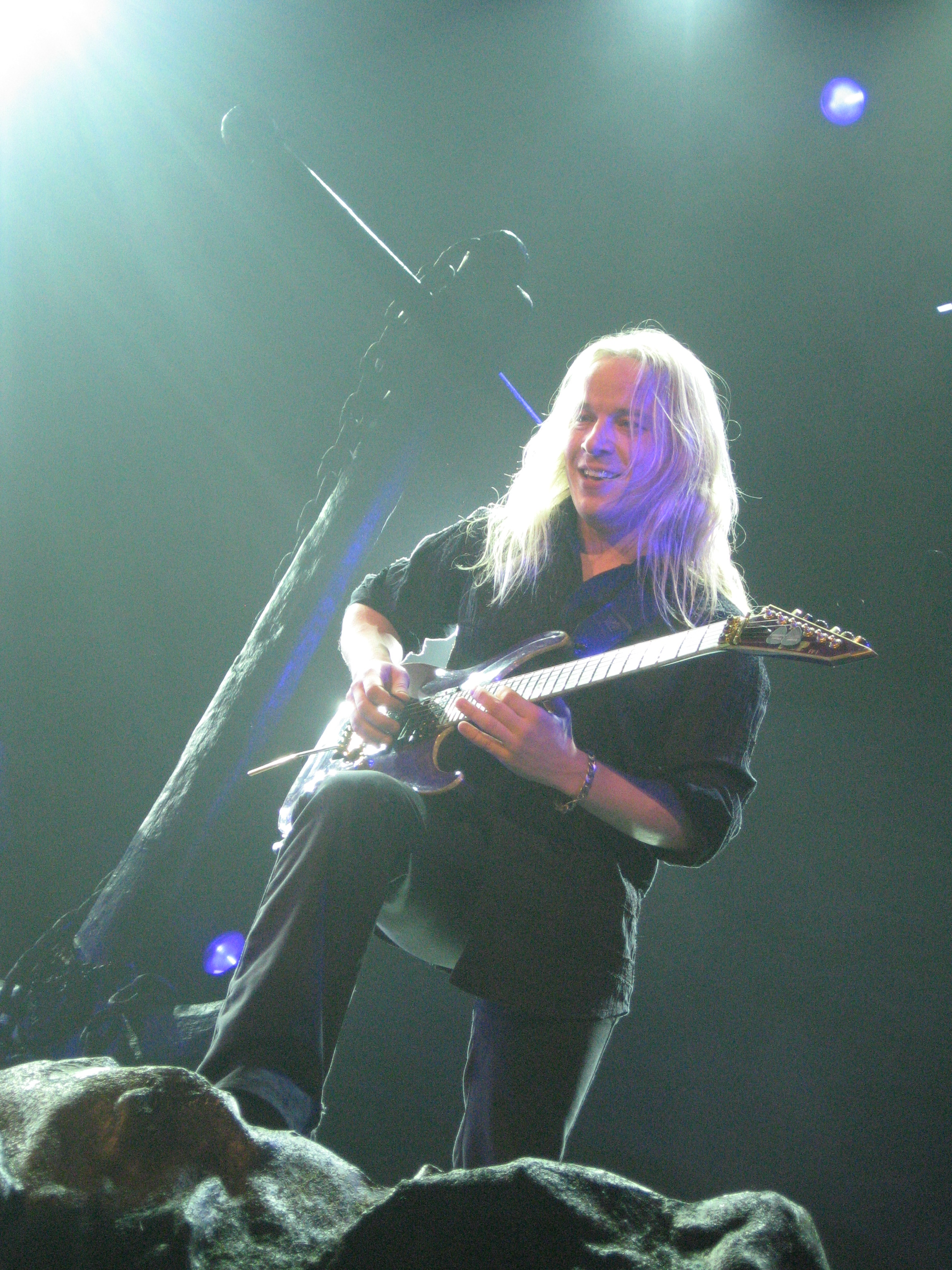 Erno Vuorinen "Emppu" at the Zenith of Paris with Nightwish on 24 March 2009